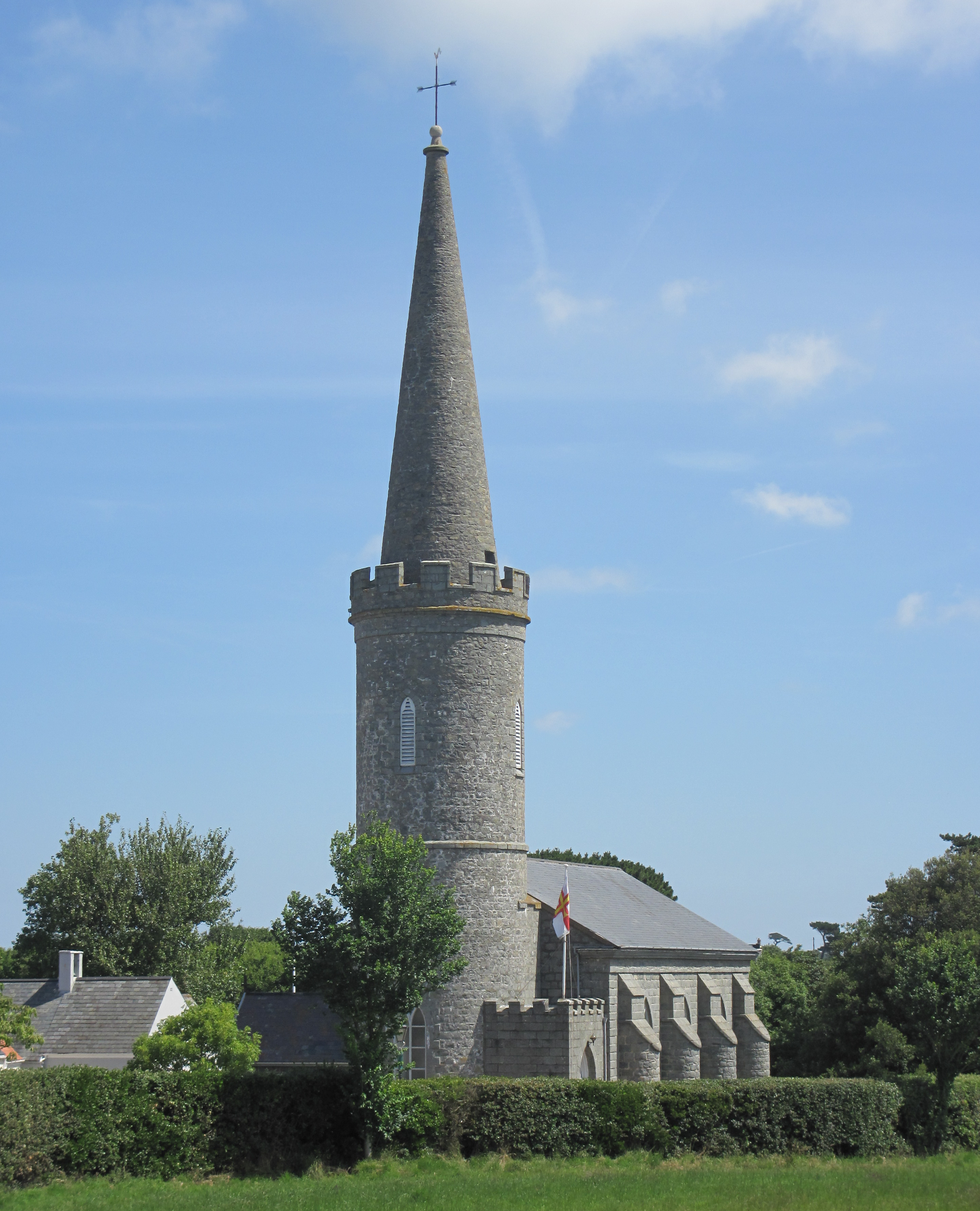 Guernsey, June-July 2011: Torteval church